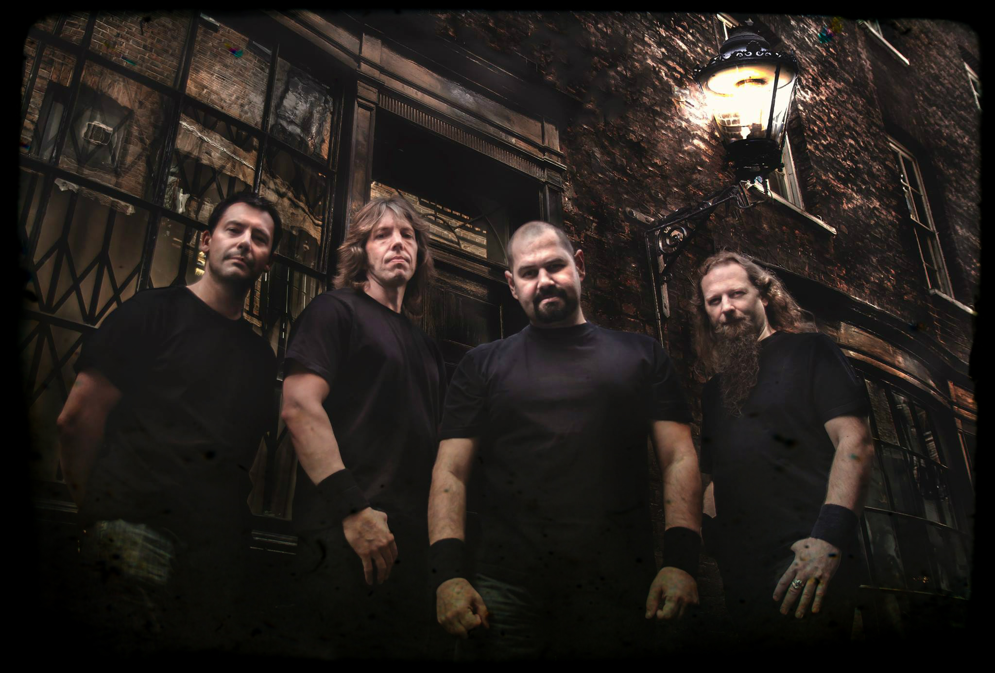 Nightlord Photo Shoot for Reborn In Darkness